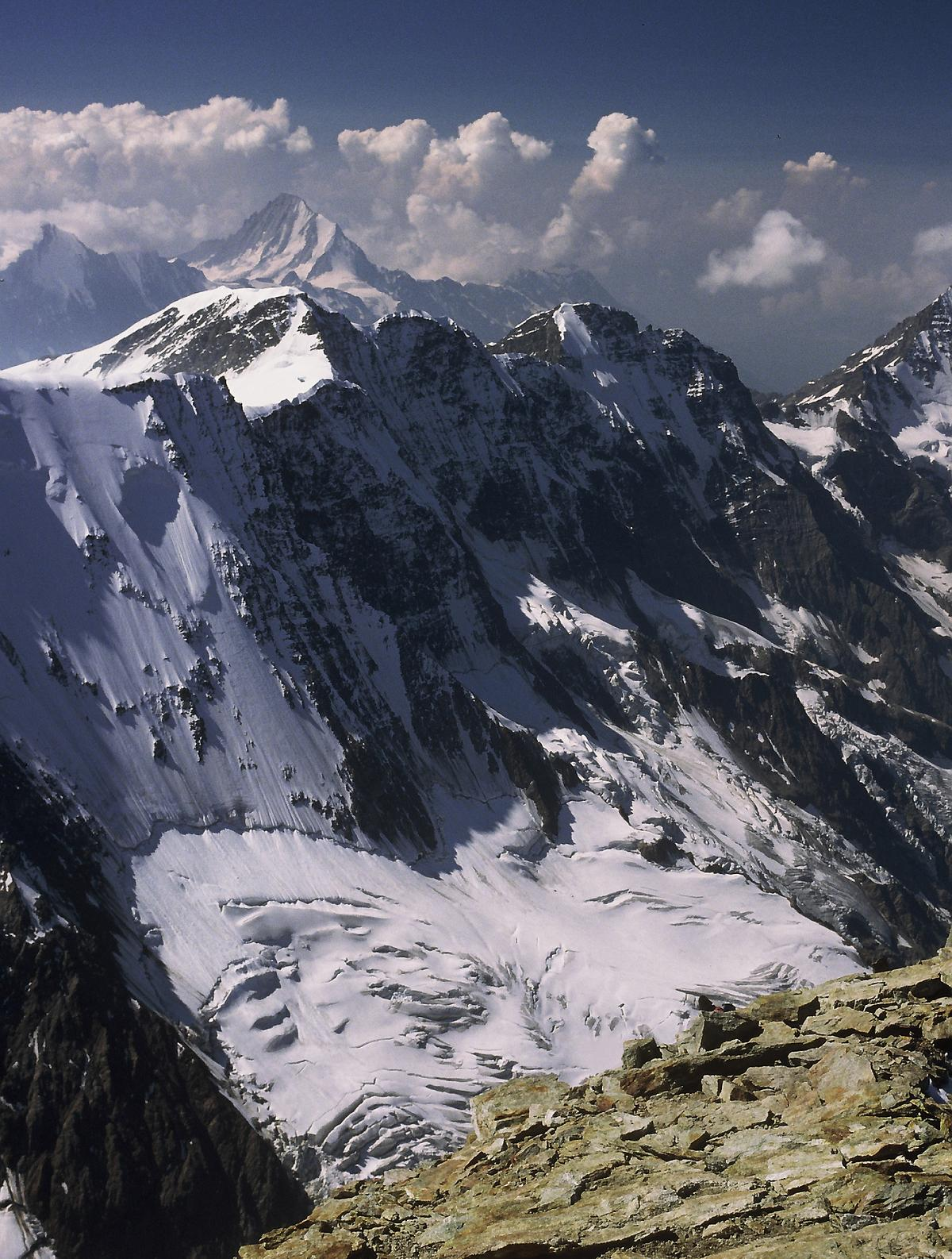 Mittaghorn and Bietschhorn (in the background), Bernese Alps